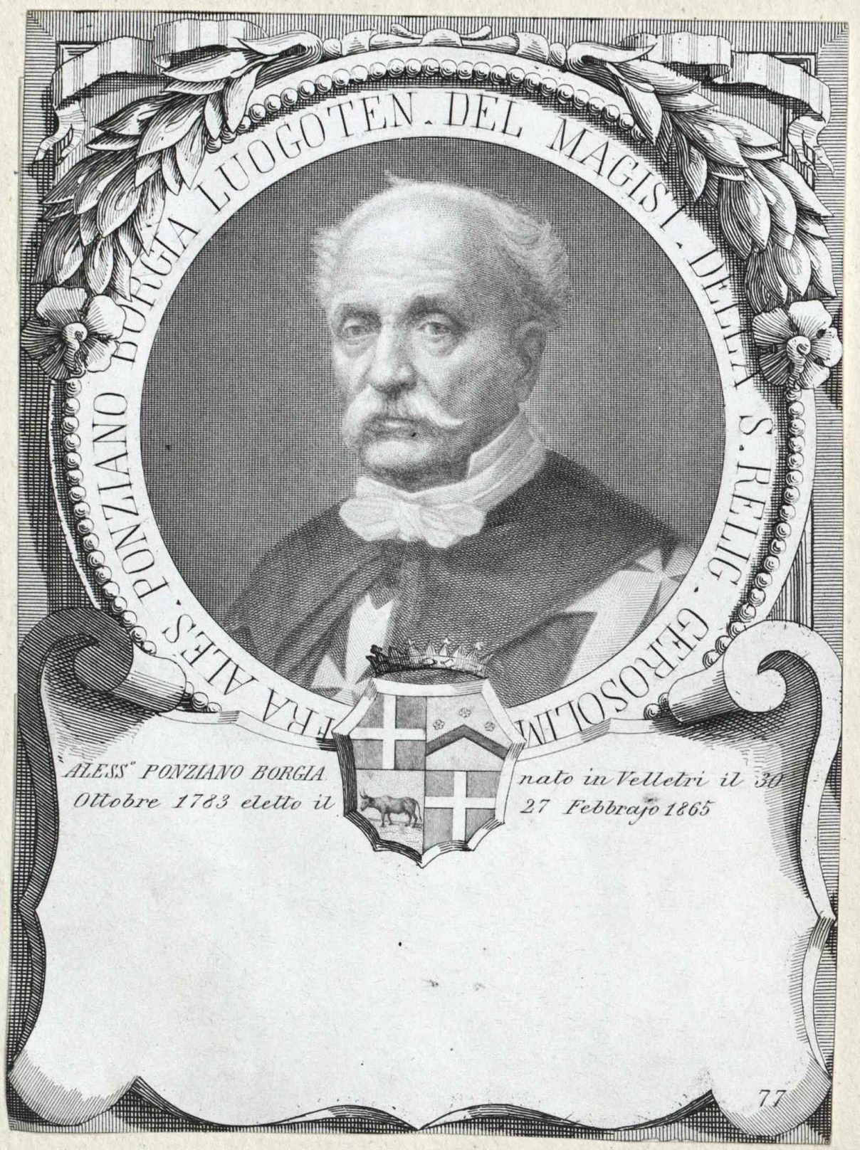 Alessandro Borgia (1783-1872) Statthalter (Leutnant) = Oberhaupt des Malteserordens